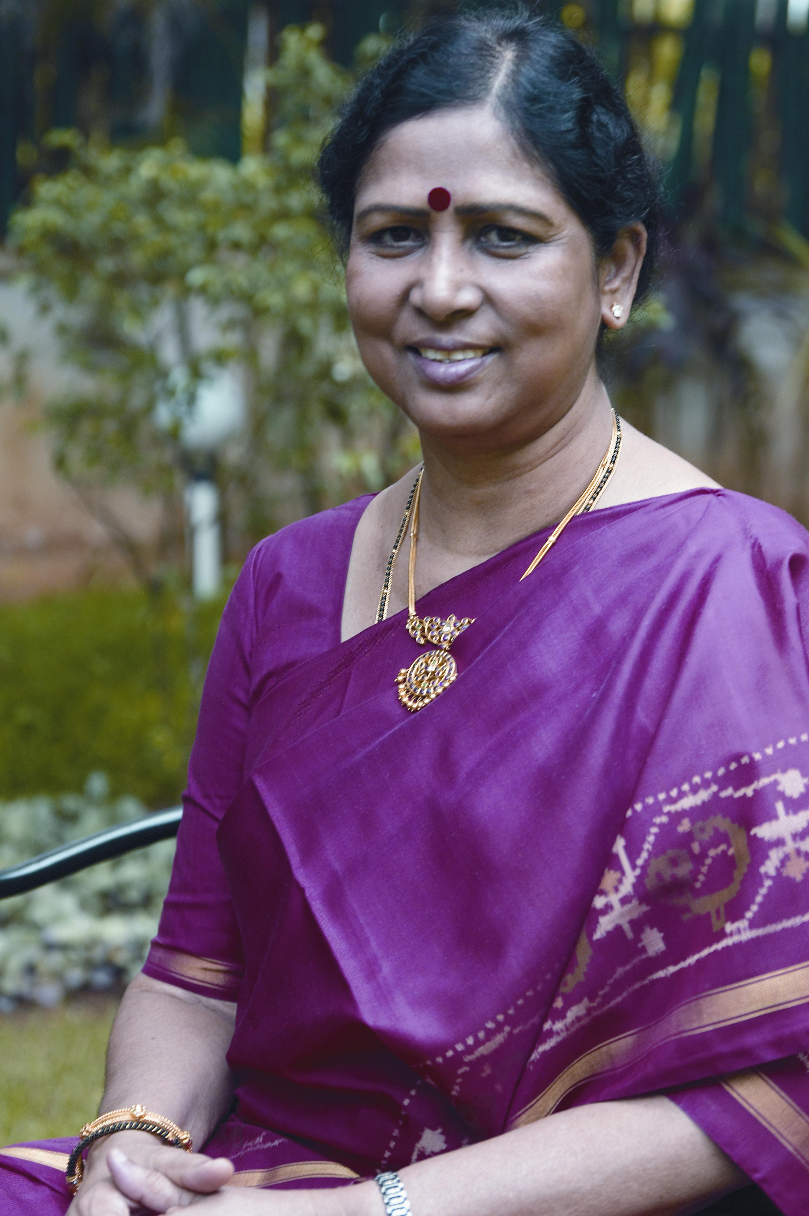 Aruna Kumari Galla author